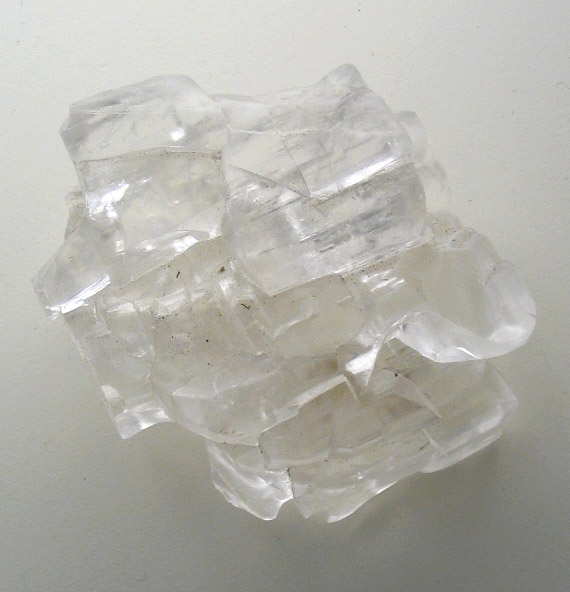 Halite (rock salt) crystal from Stassfurt, Germany. Photograph taken at the Natural History Museum, London.